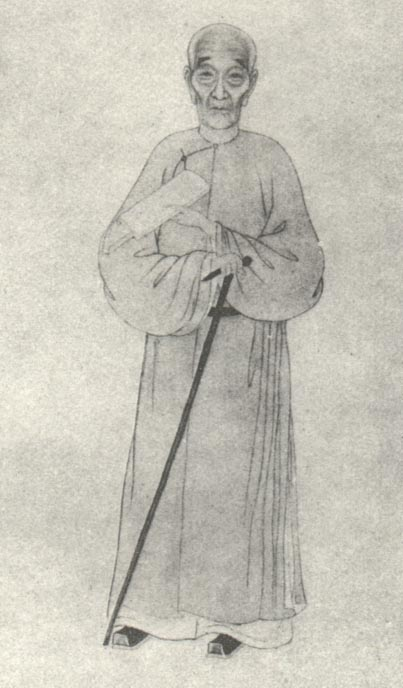 WANG Niansun, politician and scholar of the Qing Dynasty.